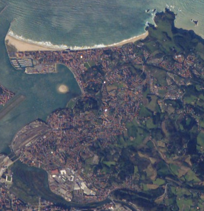 Hendaye, Labourd, Basque Country